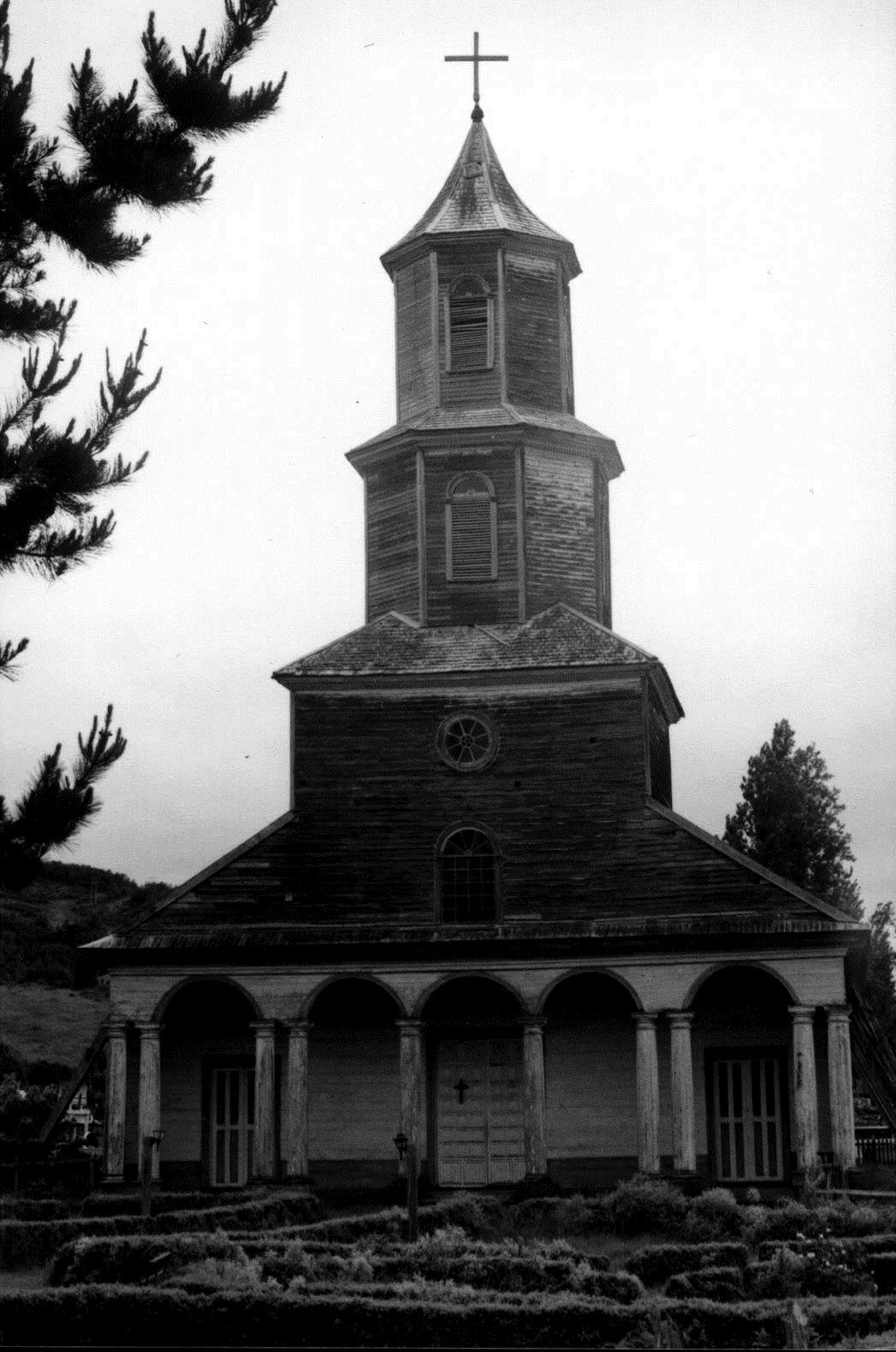 Church Nuestra Señora de Gracia de Nercón, Castro, Chiloé